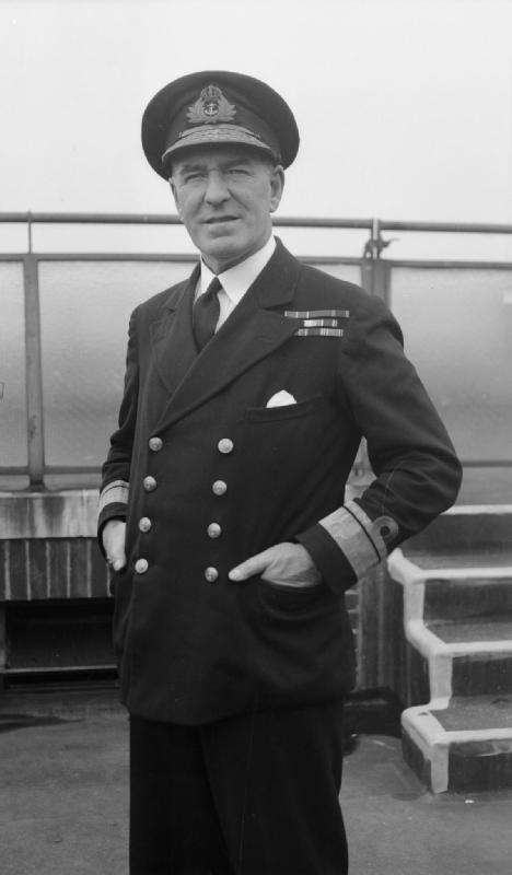 The Royal Navy during the Second World War- Personalities Half length portrait of Vice Admiral Sir Harold Martin Burrough CB KBE DSO.